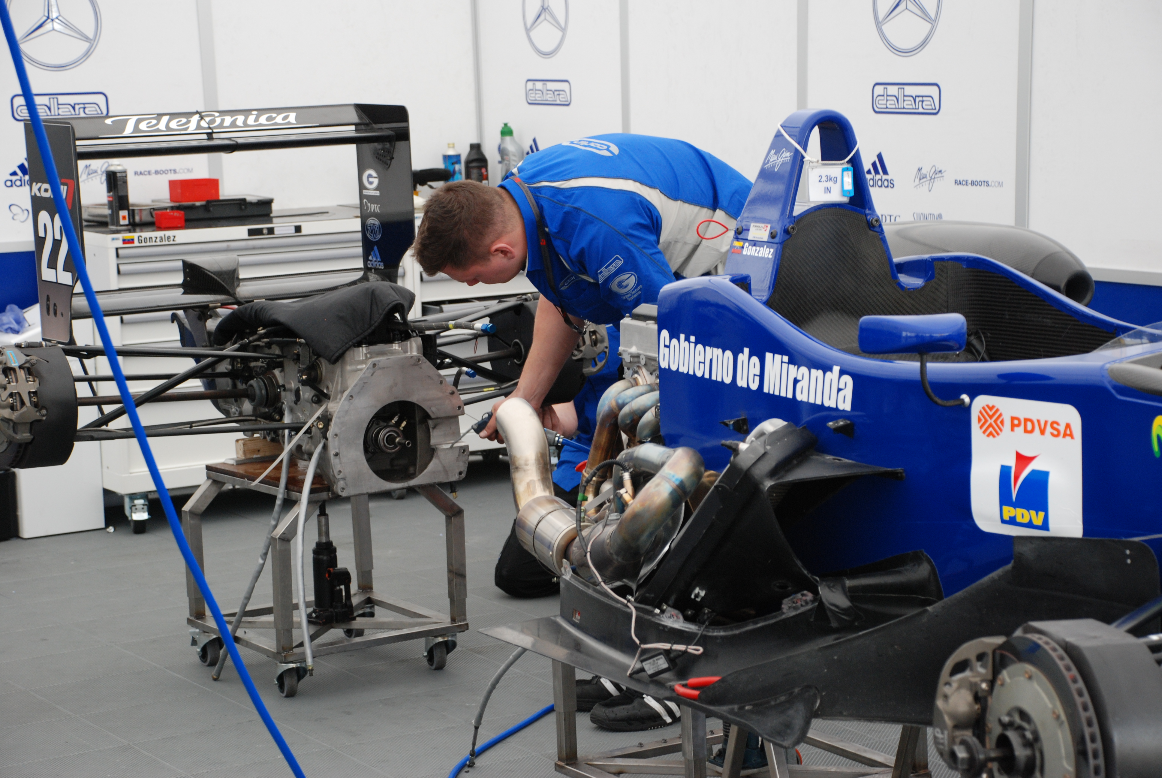 Formula-3-Car